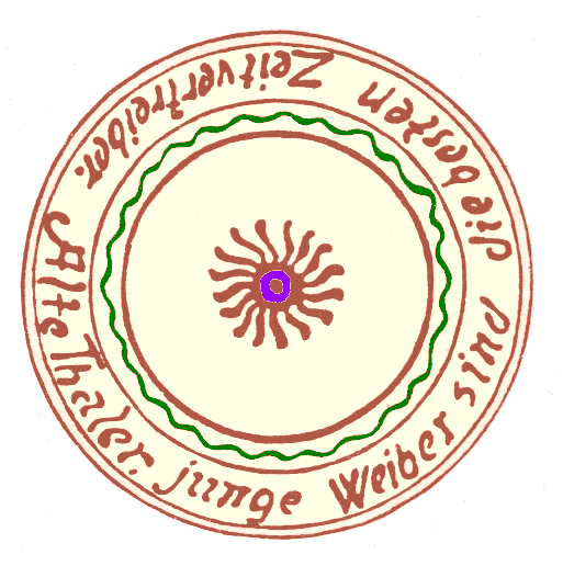 A dash in Werrakeramik style.